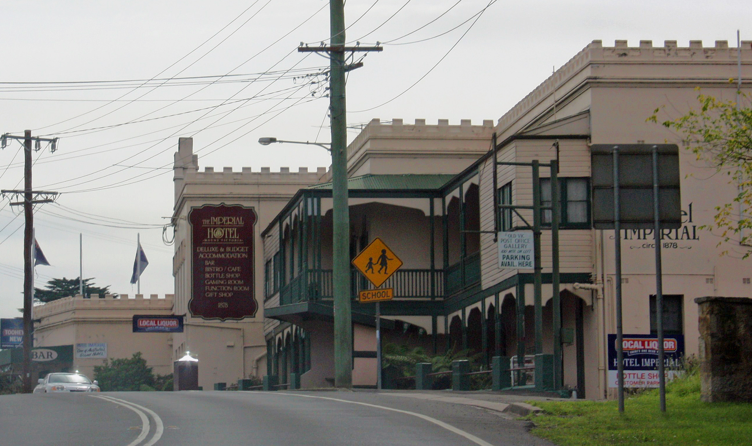 1 Station Street, Mount Victoria. Taken from car window. Opened in October 1878 as a Resort Hotel, the Imperial is the oldest Tourist Hotel in Australia. By the early 1900s,it was well established as one of the three Grand Hotels of the Blue Mountains, along with the Carrington at Katoomba and the Hydro at Medlow Bath. In its heyday, The Imperial hosted Prime Ministers and Royalty, and still proudly displays the Royal Coat of Arms presented in 1901.